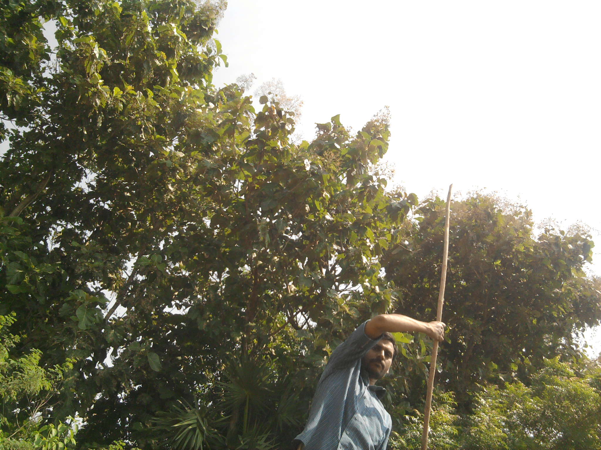 Karra samu (కర్ర సాము) - Fight with stick in india